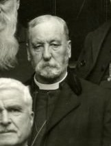 James Sweeny, then Anglican Bishop of Toronto